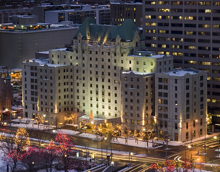 Provided by hotel webmaster for full distribution.